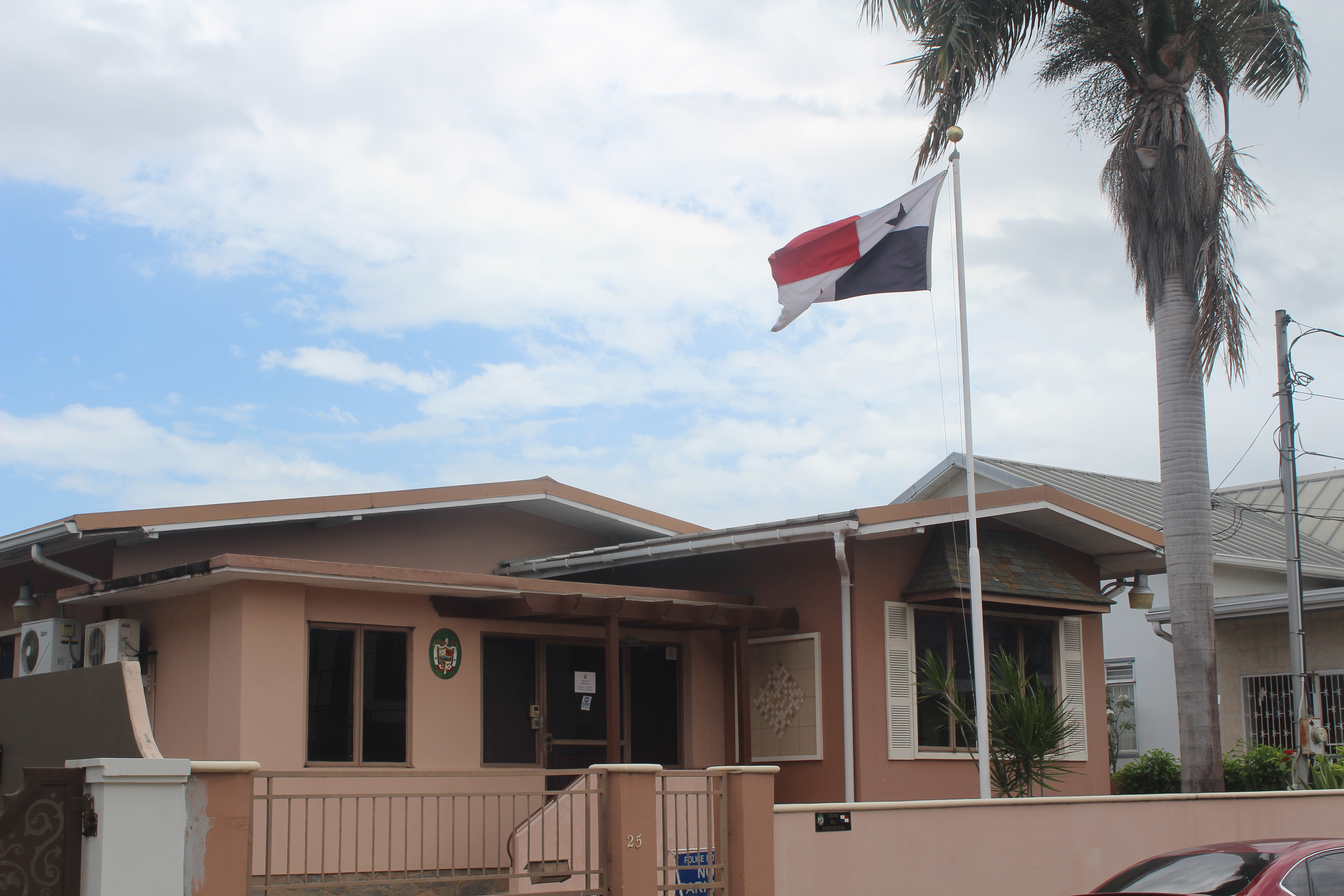 Panamanian Embassy in Port of Spain